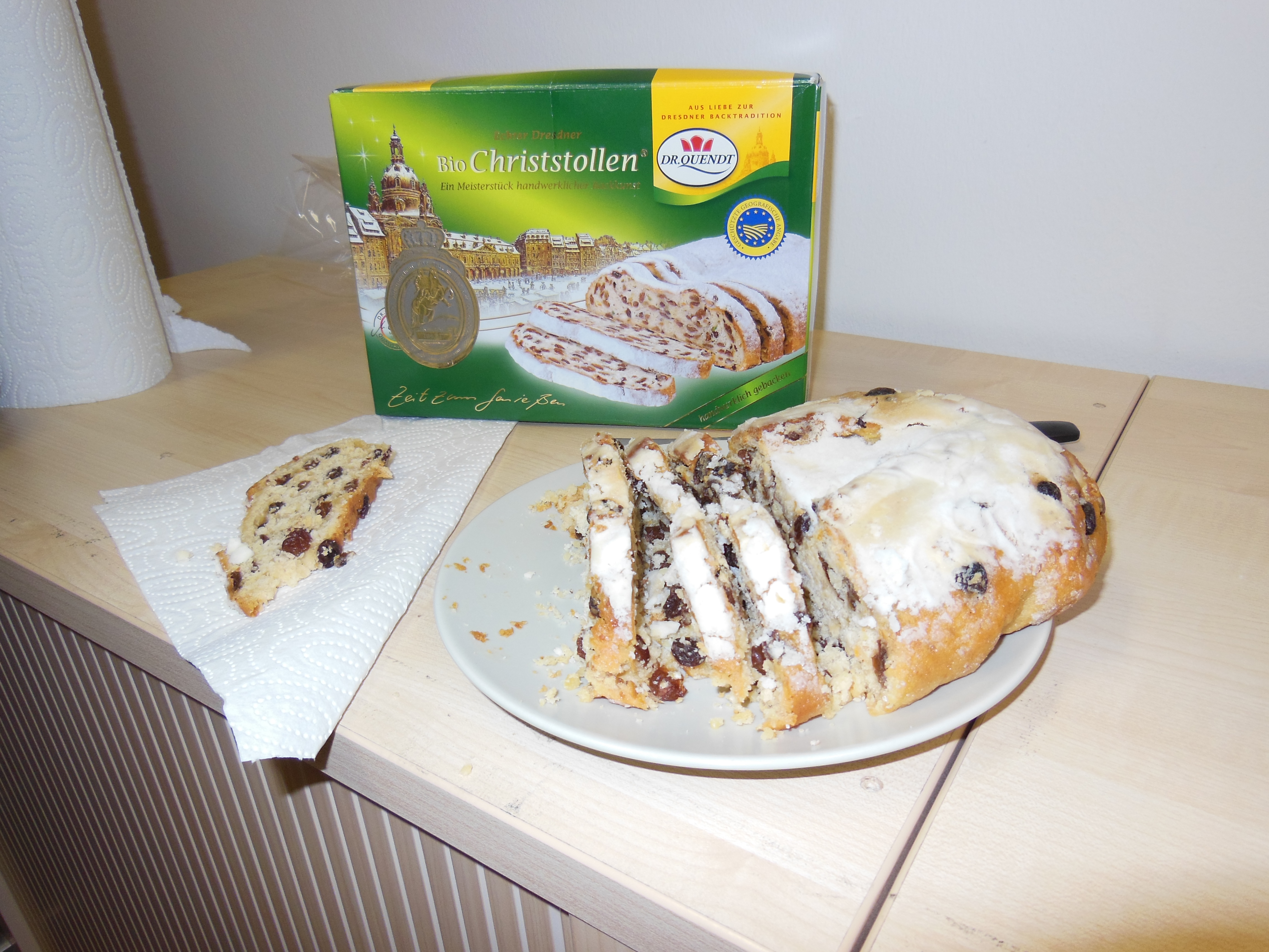 Dresdner Stollen 2013